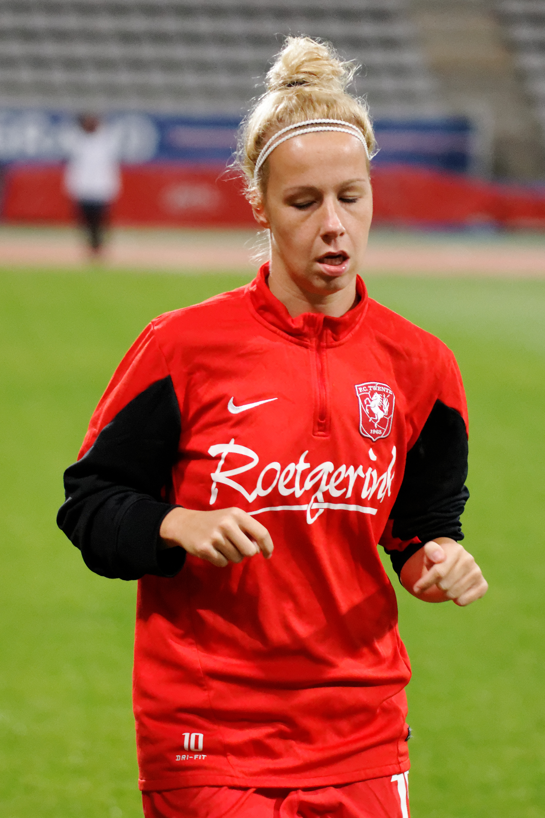 UEFA Women's Champions League, PSG - Twente, 15 October 2014